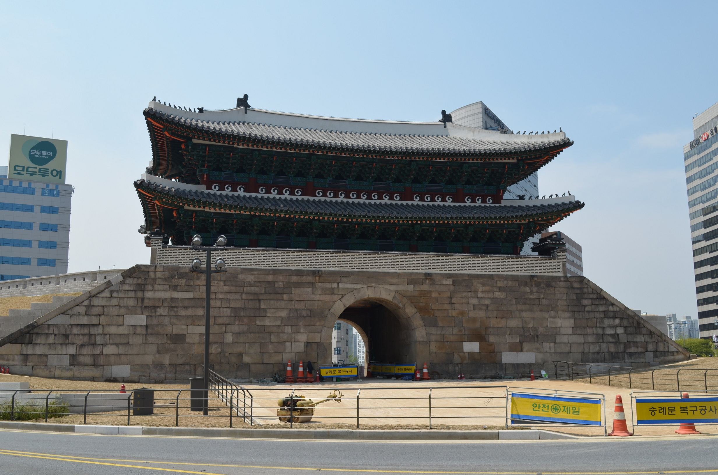 Sungnyemun Gate, also known as Namdaemun Gate or South Gate, Seoul, South Korea. Photographed April 27, 2013.